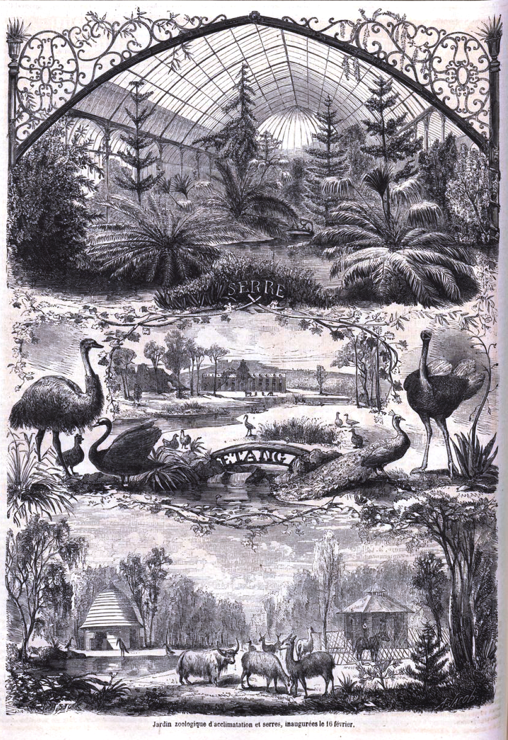 Jardin d' Acclimatation inaugurated in February 1861